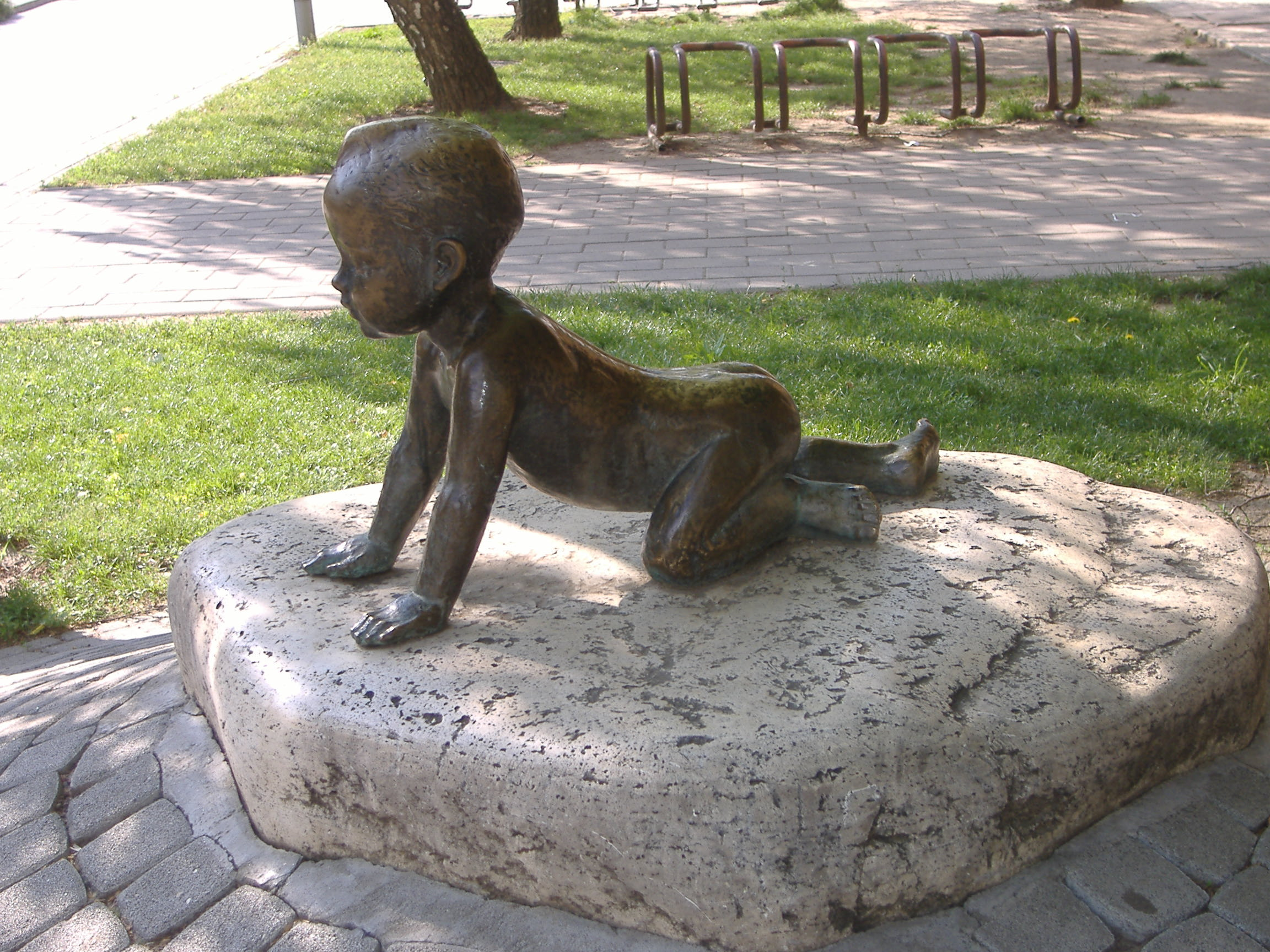 Klára Herczegh's "Junior statue" (Öcsi szobor in Hungarian) in Makó, Hungary.